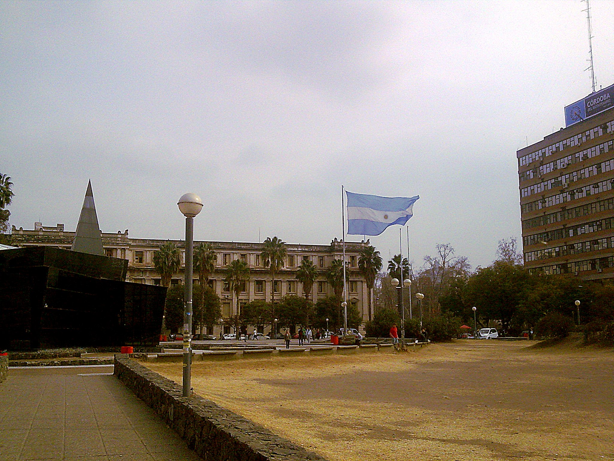 De la intendencia square (quartermaster square). Cordoba, Argentina.